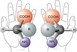 Amino Acid Chirality chirality with hands from A "chiral" molecule is one that is not superimposable with its mirror image. Like left and right hands that have a thumb, fingers in the same order, but are mirror images and not the same, chiral molecules have the same things attached in the same order, but are mirror images and not the same. Although most amino acids can exist in both left and right handed forms, Life on Earth is made of left handed amino acids, almost exlusively. No one knows why this is the case. However, Drs. John Cronin and Sandra Pizzarello have shown that some of the amino acids that fall to earth from space are more left than right. Thus, the fact that we are made of L amino acids may be because of amino acids from space. Why do amino acids in space favor L? No one really knows, but it is known that radiation can also exist in left and right handed forms. So, there is a theory called the Bonner hypothesis, that proposes that left handed radiation in space (from a rotating neutron star for example) could lead to left handed amino acids in space, which would explain the left handed amino acids in meteorites. This is still speculative but our paper makes it much more plausible. In fact, this observations was one of the main reasons why we persued this research. Although there were theories about how the amino acids could form in space in the ice, no one had shown that it was viable to make amino acids this way, until now.